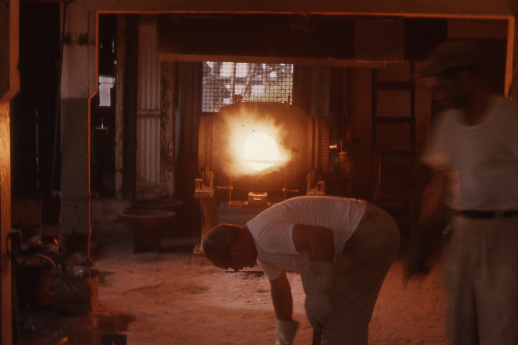 Processing gold at La Luz Gold Mine. The town of Siuna, Nicaragua was the site of La Luz Mining company, which was active from 1936 to 1968. There was migration from other areas of the country to work in the gold mine during these years, including people from the coast and indigenous groups. The mine was shut down in 1968 due to damage of the Ei River Hydro Electric Plant.[1]